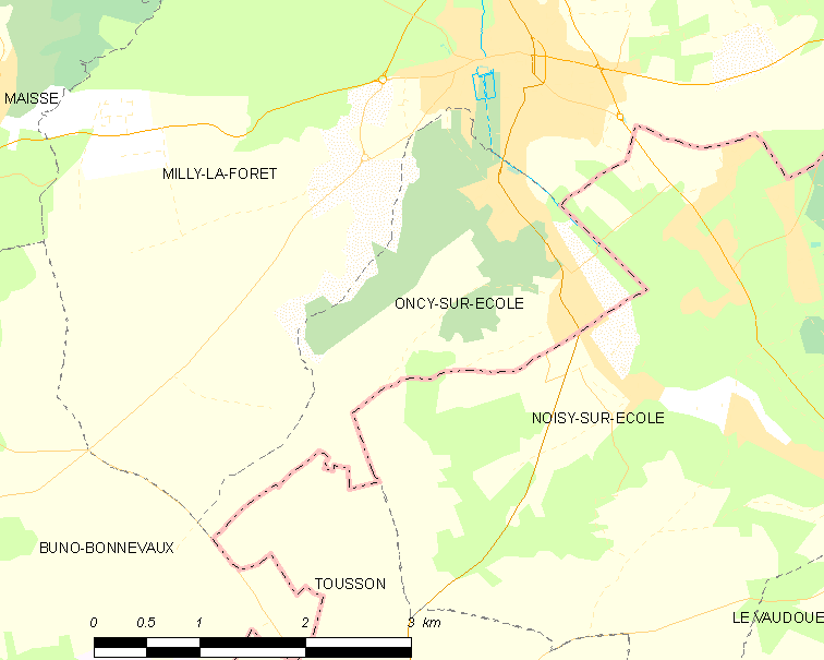 Map of French municipality Oncy-sur-École